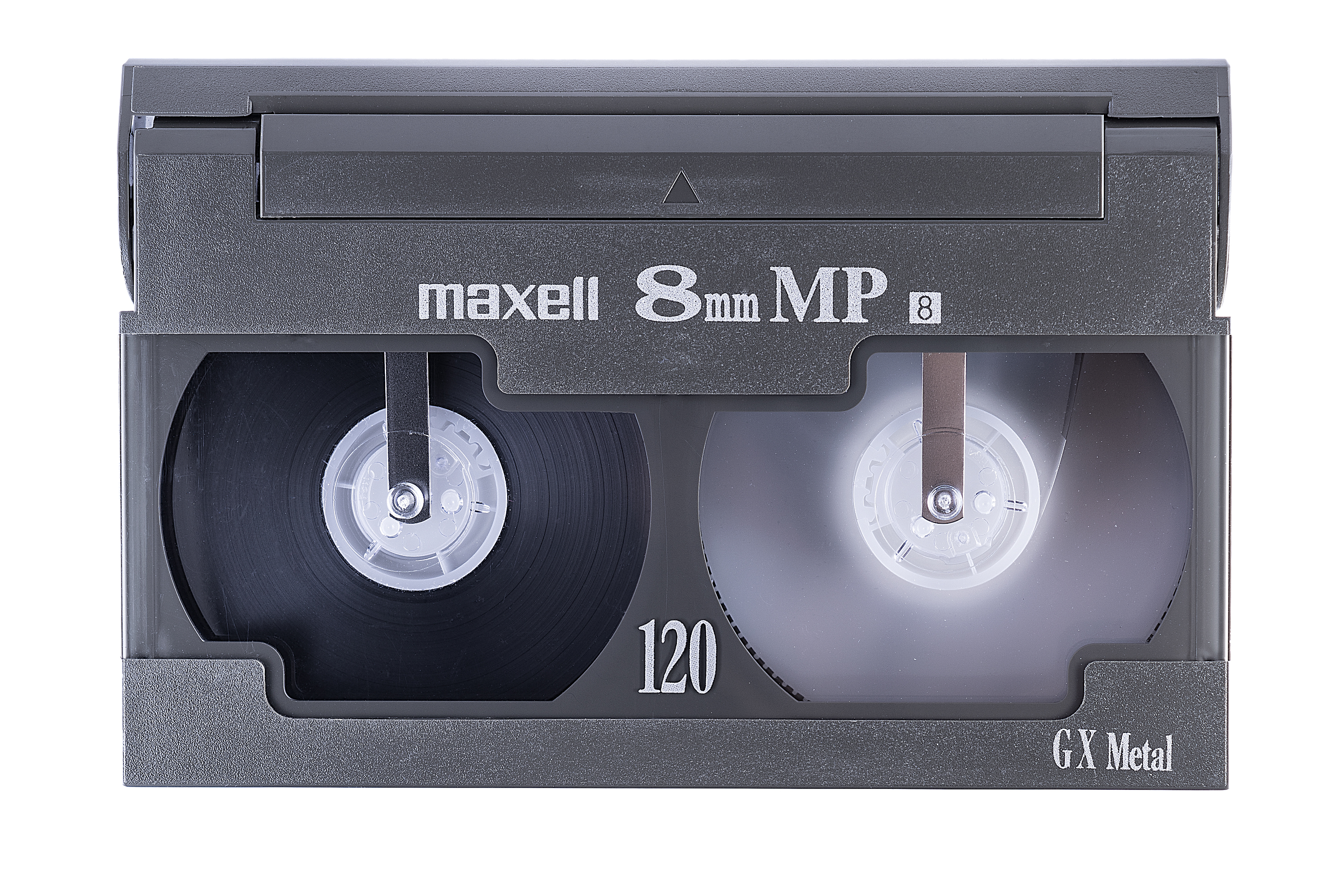 Image of front of 8mm video cassette